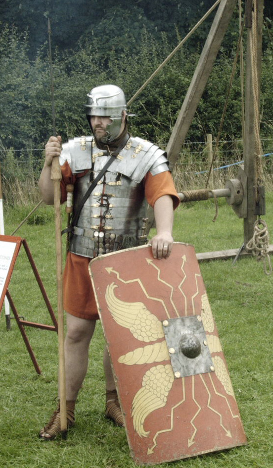 Summary Etrusia - Roman History Credits Etrusia - Roman History